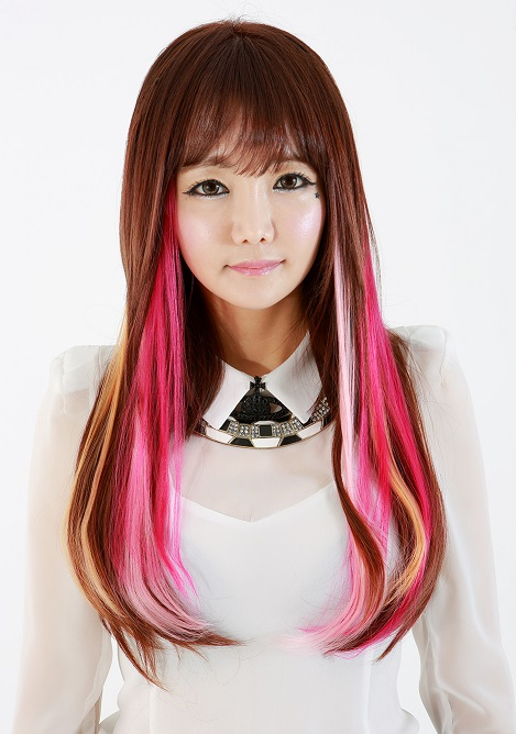 Profile photo of artist Mari Kim, taken by photographer brother, Nara Kim, at her art studio.